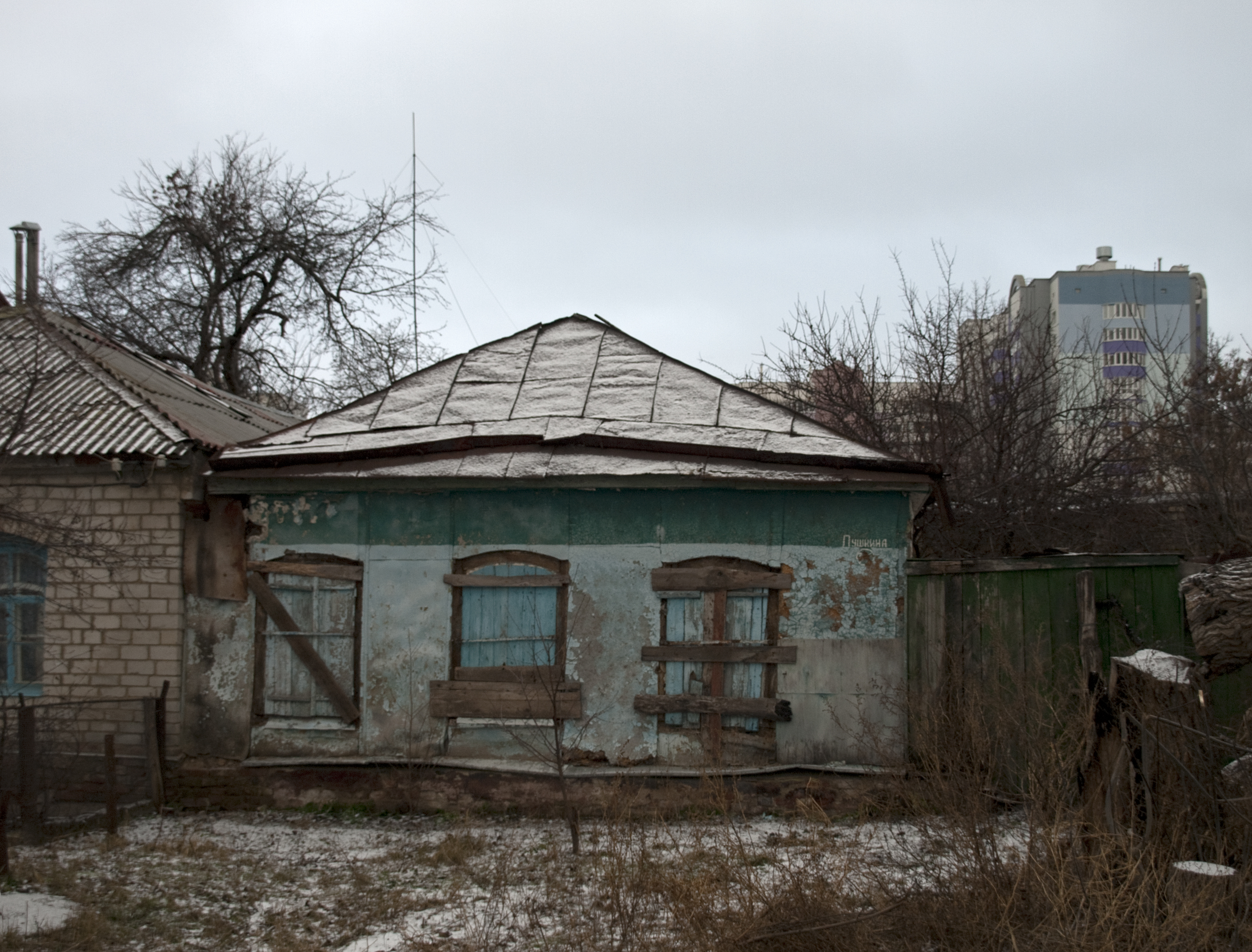 Pushkina Street 25, Belgorod